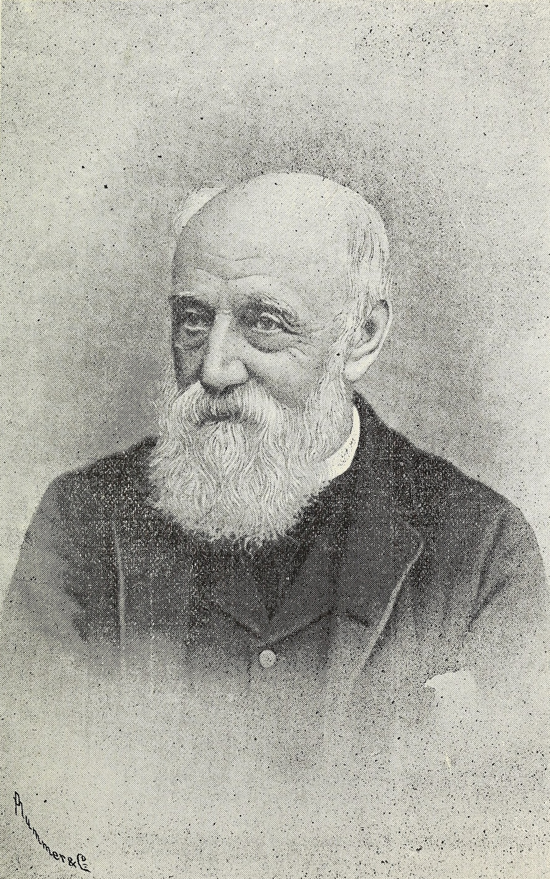 Title: British naturalist Year: [1] (s) Authors: Subjects: Publisher: London Text Appearing Before Image: NATURALISTS OF THE DAY. THE BRITISH NATURALIST. Text Appearing After Image: J. W. DOUGLASS, F.E.S.